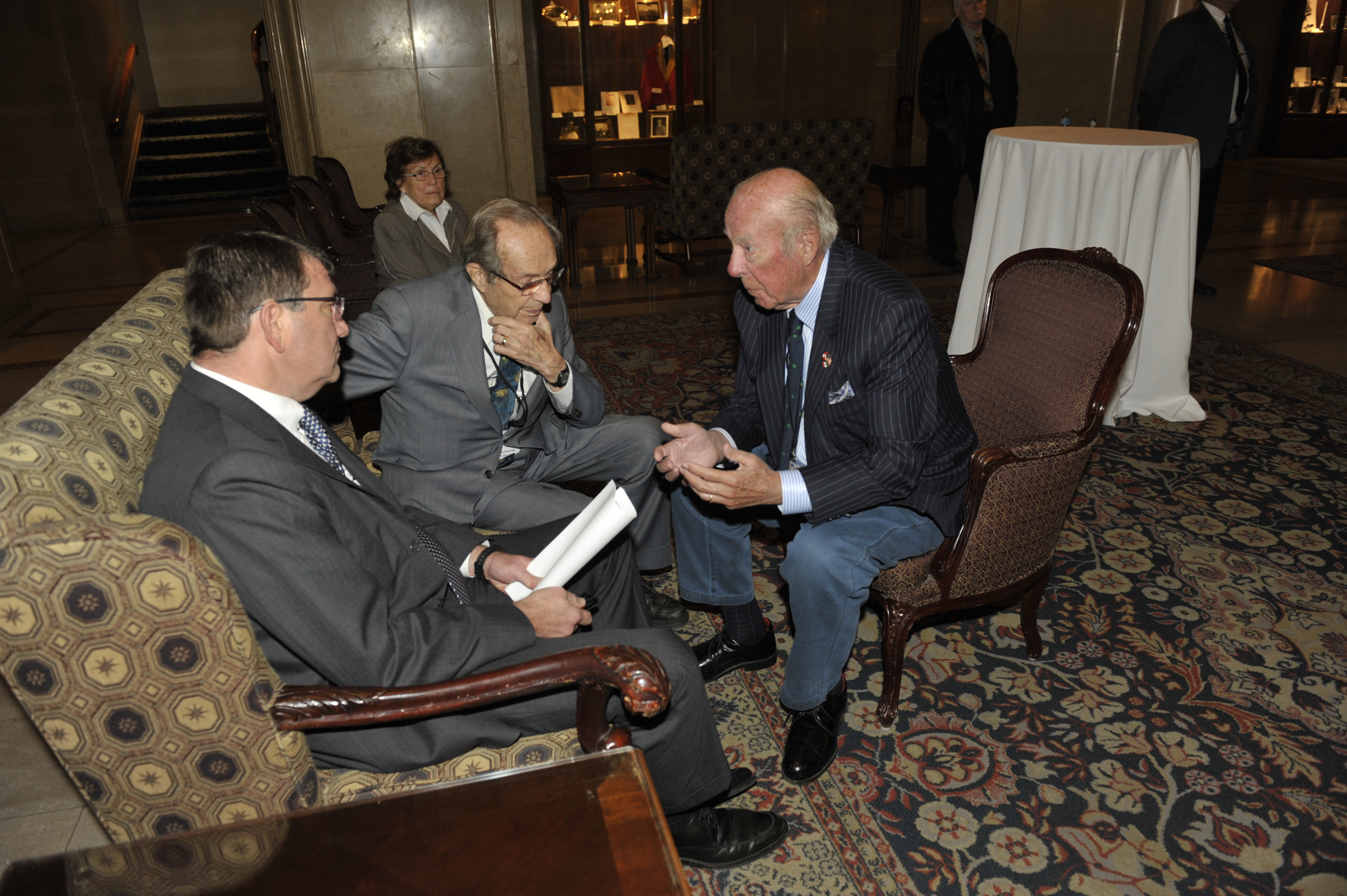 Deputy Secretary of Defense Ashton B. Carter, left, and former Secretary of Defense William Perry listen to former Secretary of State George P. Shultz, right, as he makes a point during a conversation at the North American Forum conference in Ottawa, Canada, on Oct. 13, 2012. Carter earlier addressed the audience of the conference.